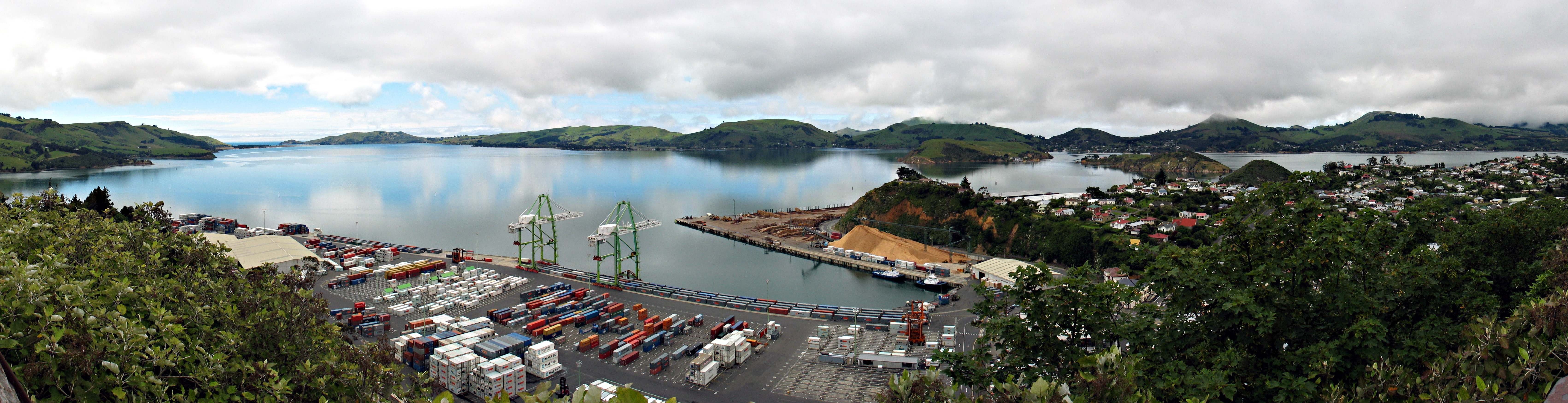 This is a panorama of the view from the Centennial Lookout overlooking Port Chalmers and its container terminal, in New Zealand. Port Chalmers is Dunedin's port.